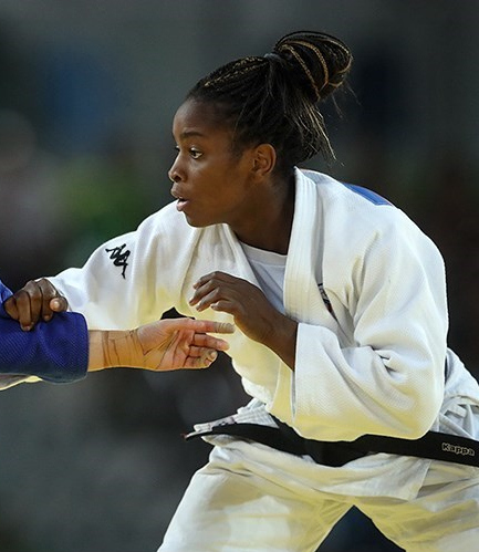 2016 Summer Olympics Judo, August 9